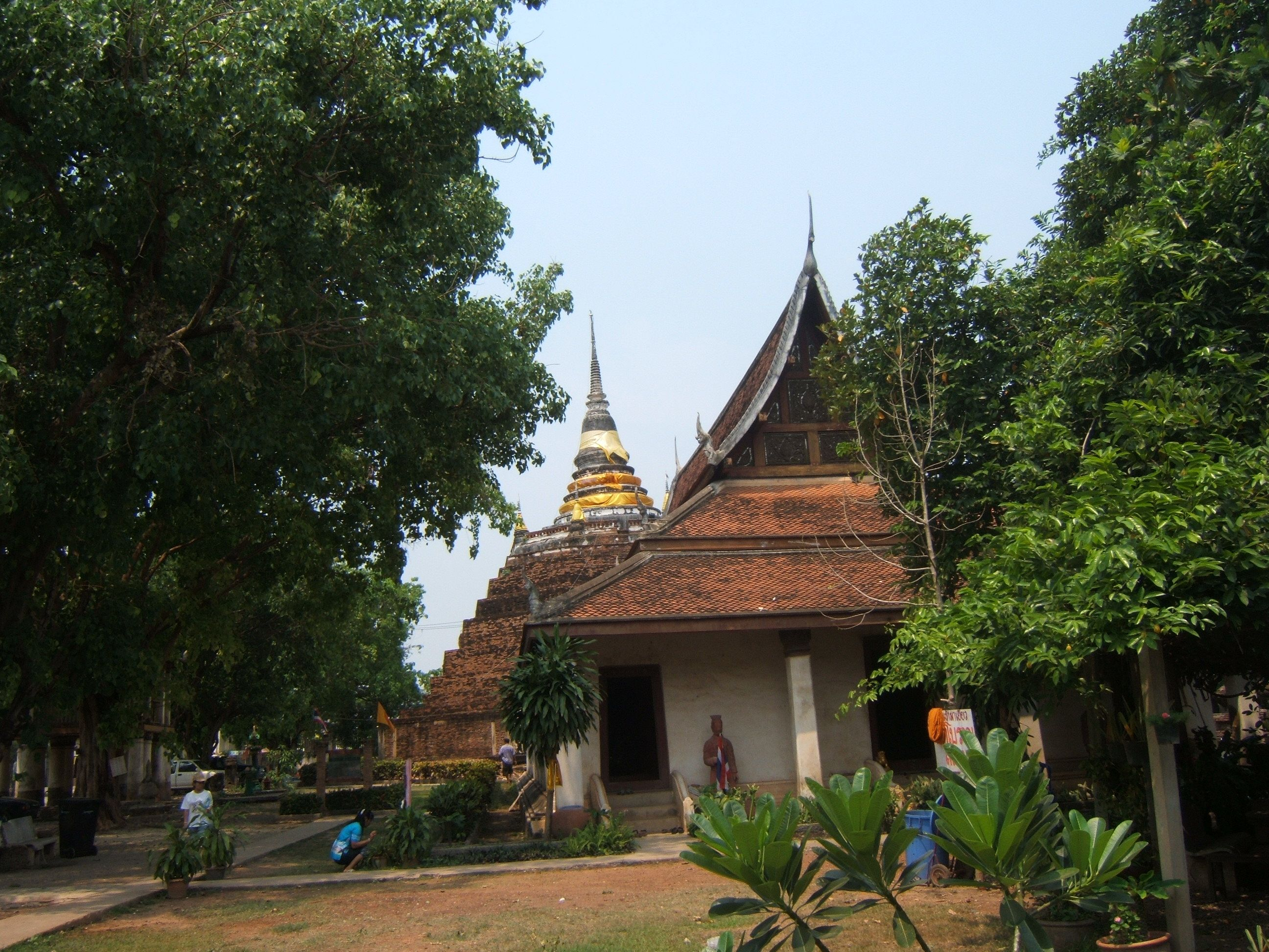 Chedi and shrine in Wat Ratchaburana, Phitsanulok, Thailand